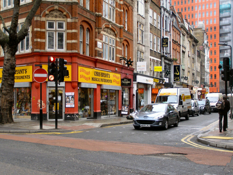 Denmark Street Viewed here at its junction with Charing Cross Road. During the 1950s and 1960s, many music publishers and songwriters were based in Denmark street leading it to be referred to as "The British Tin Pan Alley". Although the publishers have now moved on, the street still has a high proportion of shops dealing in musical instruments